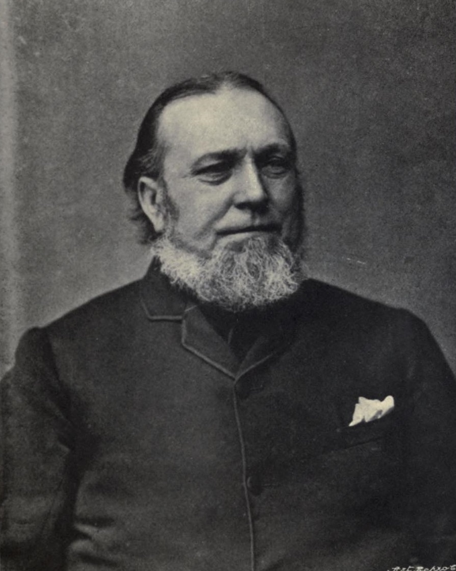 Picture of Joseph Arch